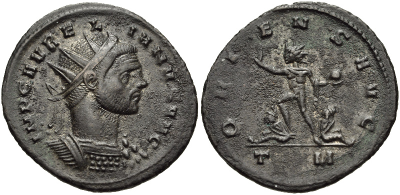 Aurelianus. AD 270-275. Antoninianus (23mm, 3.56 g, 12h). Mediolanum (Milan) mint, 3rd officina. 6th emission, spring AD 274. IMP C AVRE L IANVS AVG, radiate and cuirassed bust right ORIENS AVG, Sol advancing left, treading upon bound captive to left, extending hand and holding globe; bound captive to right; T M. RIC V 150; BN 567-8. Good VF, brown surfaces. From the White Mountain Collection.